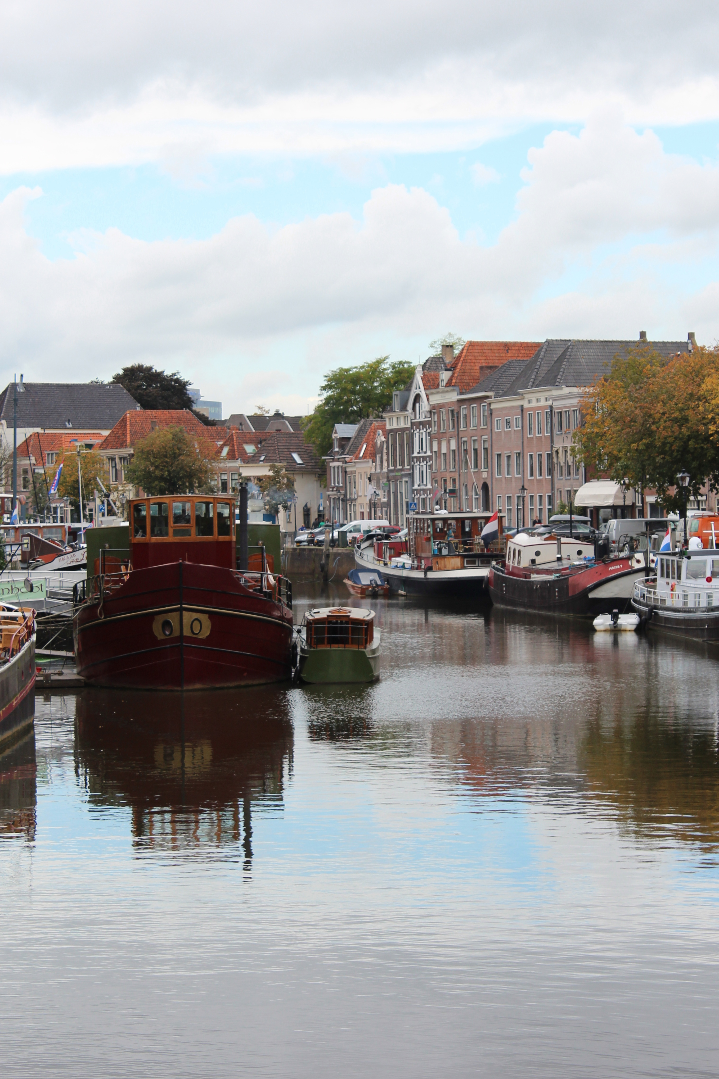 Thorbeckegracht in Zwolle.